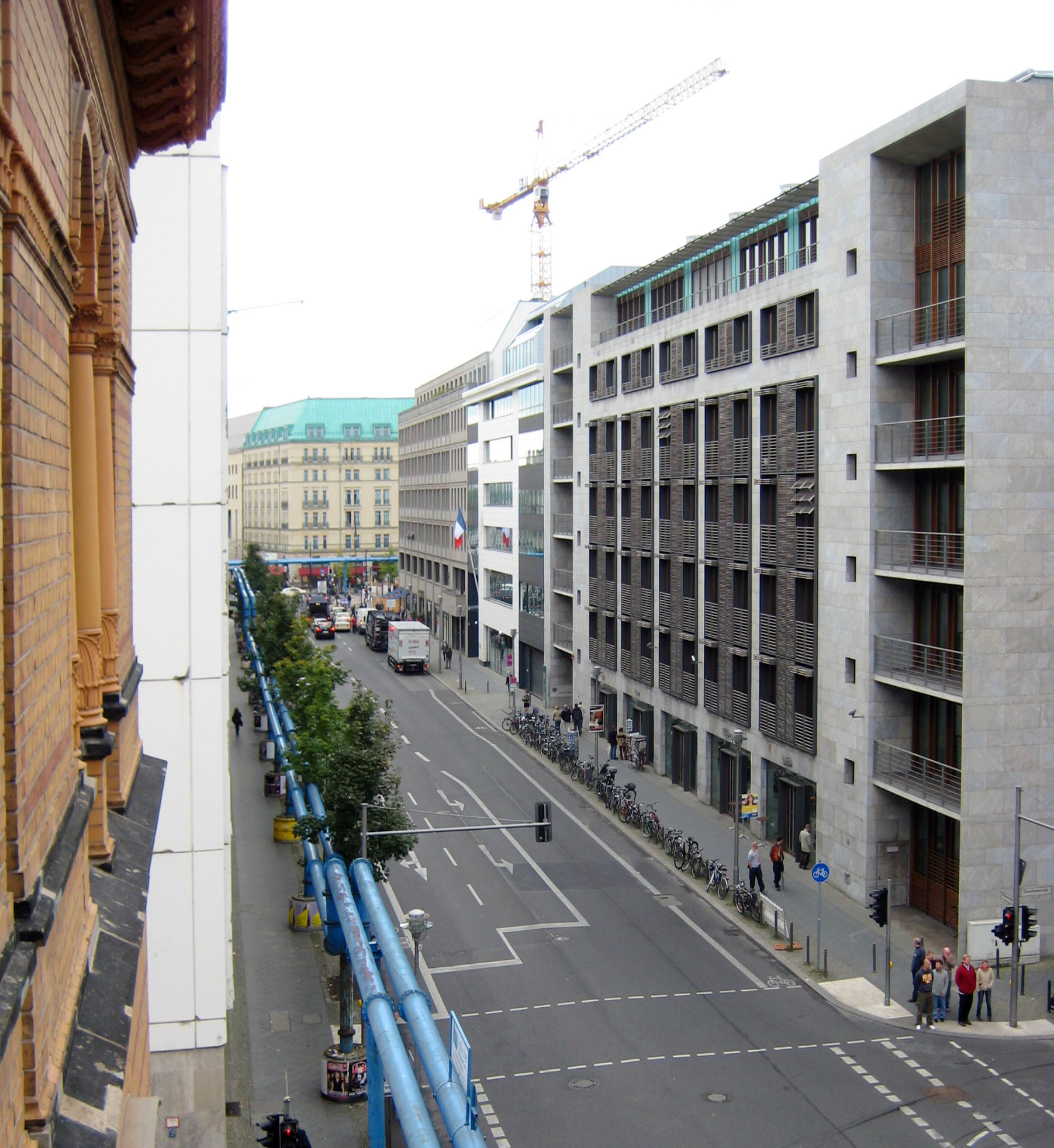 Wilhelmstraße in Berlin, Germany. View towards Unter den Linden with Hotel Adlon. The blue pipes are pumping water away from the construction site and to the Spree River.